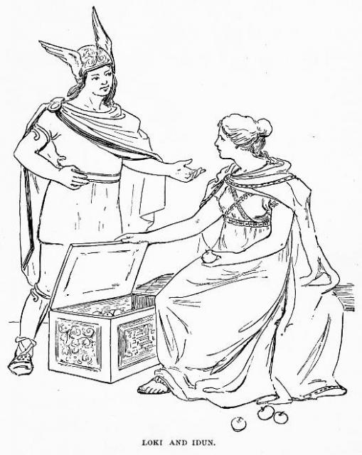 (Removed after reusableart request.)